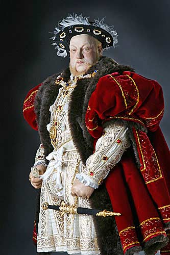 Historical figure of King Henry VIII of England